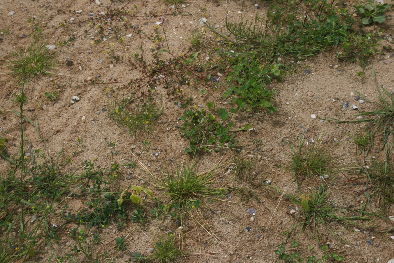 Ruderal flora - the first step in the secondary succession.